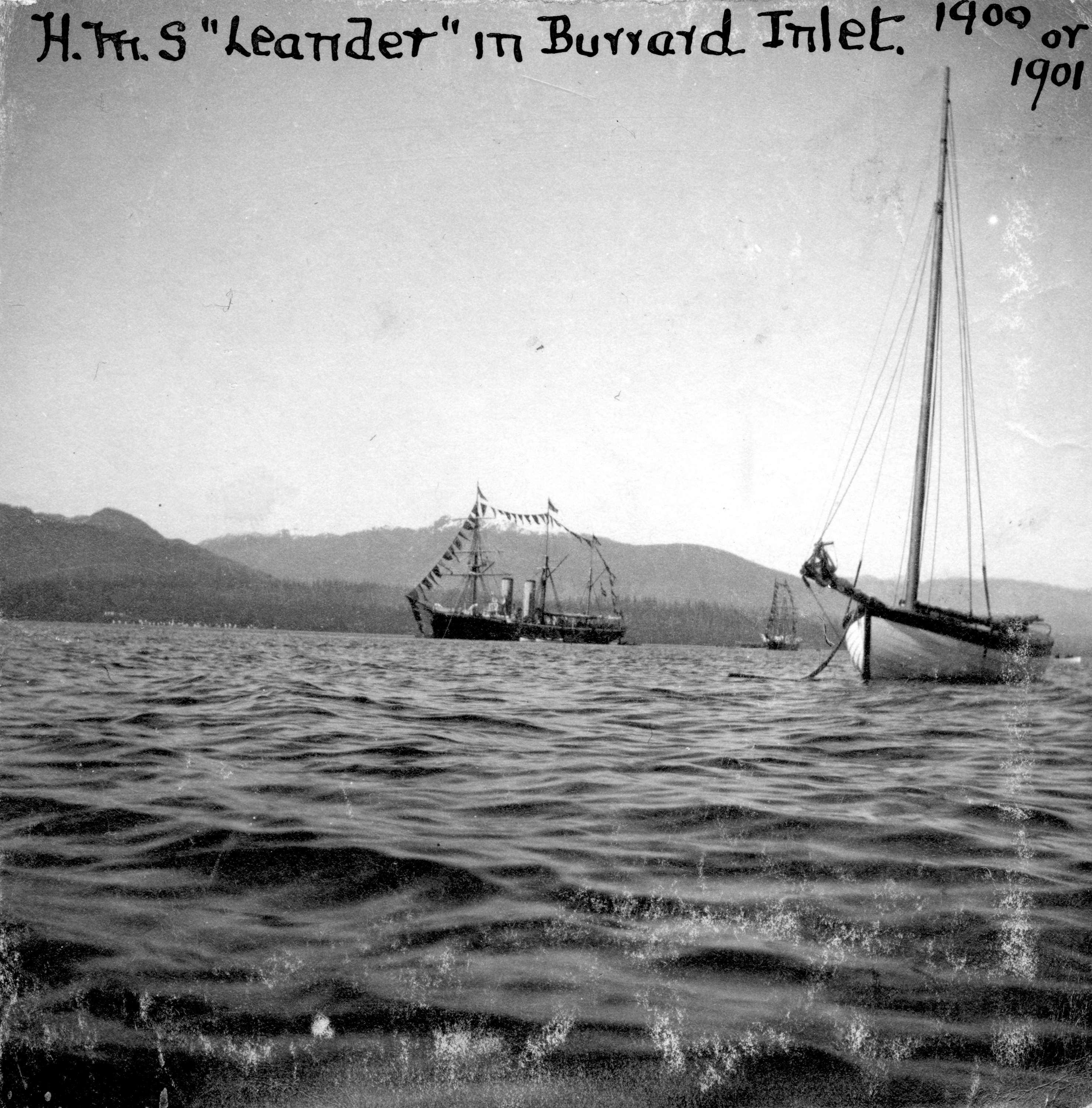 H.M.S. "Leander" in Burrard Inlet, British Columbia, Canada.